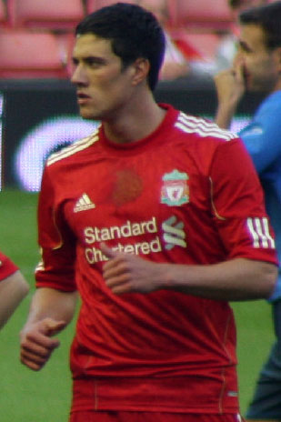 Martin Kelly of Liverpool F.C. This file has been extracted from another file: Liverpool players before match vs Rabotnicki.jpg